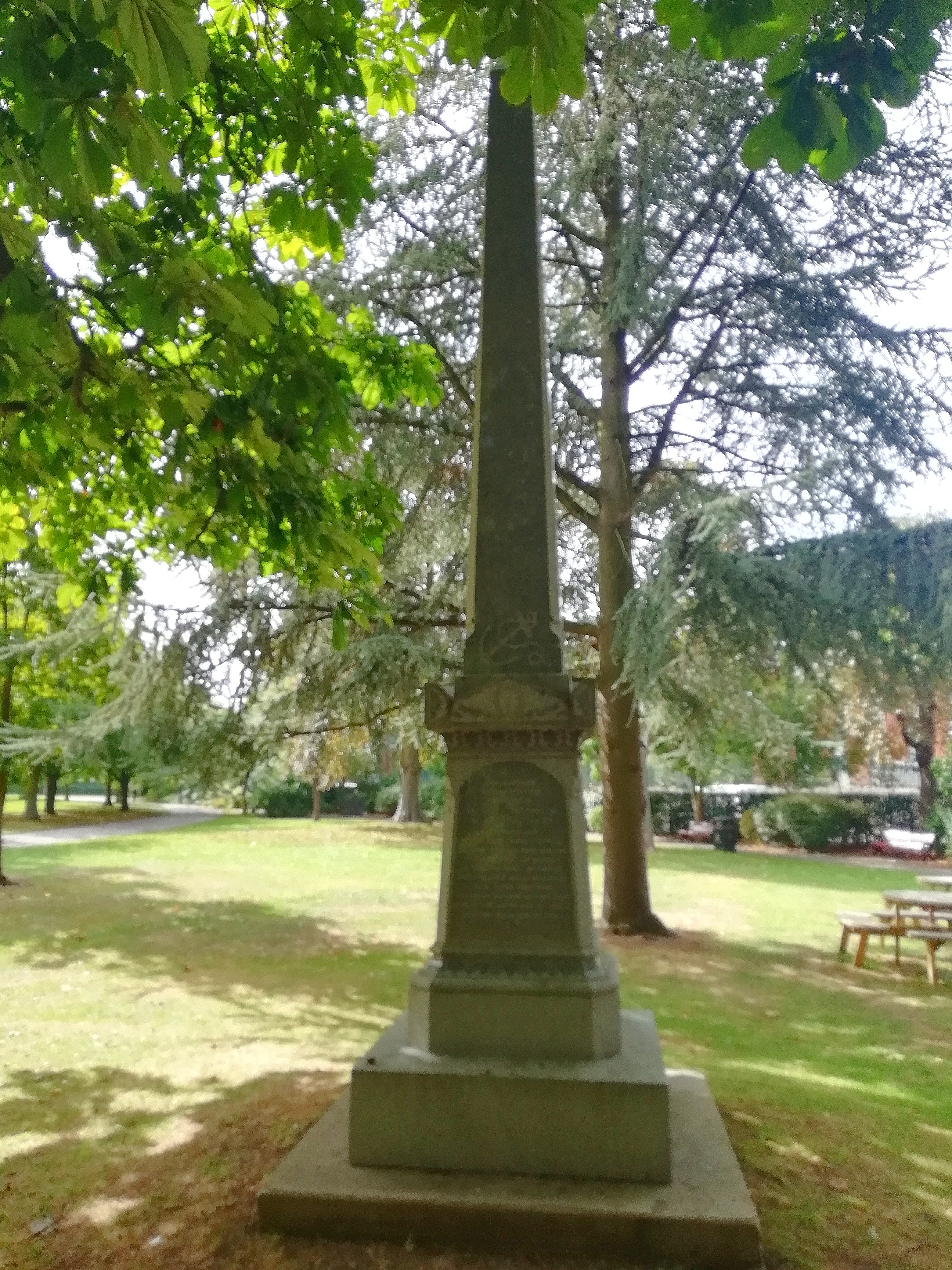 Hms Active Memorial [1] Wikidata has entry Q26666905 with data related to this item.